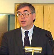 Picture of consultant AJ Slywotzki